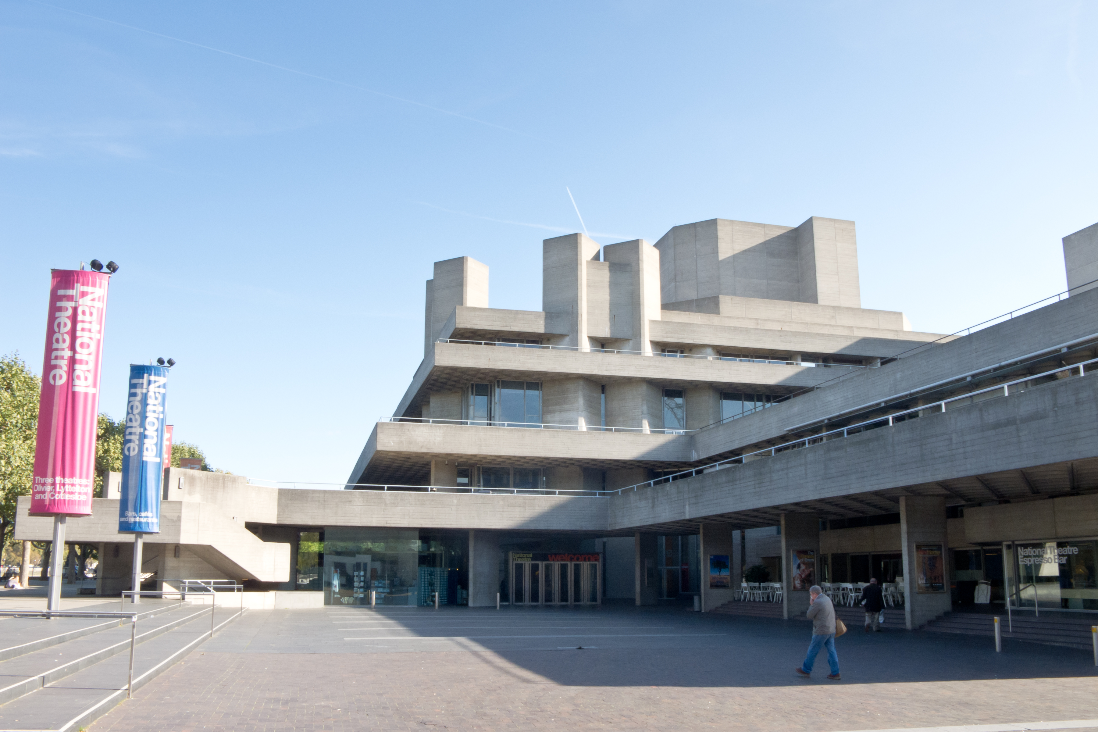 Royal National Theatre, London, England.